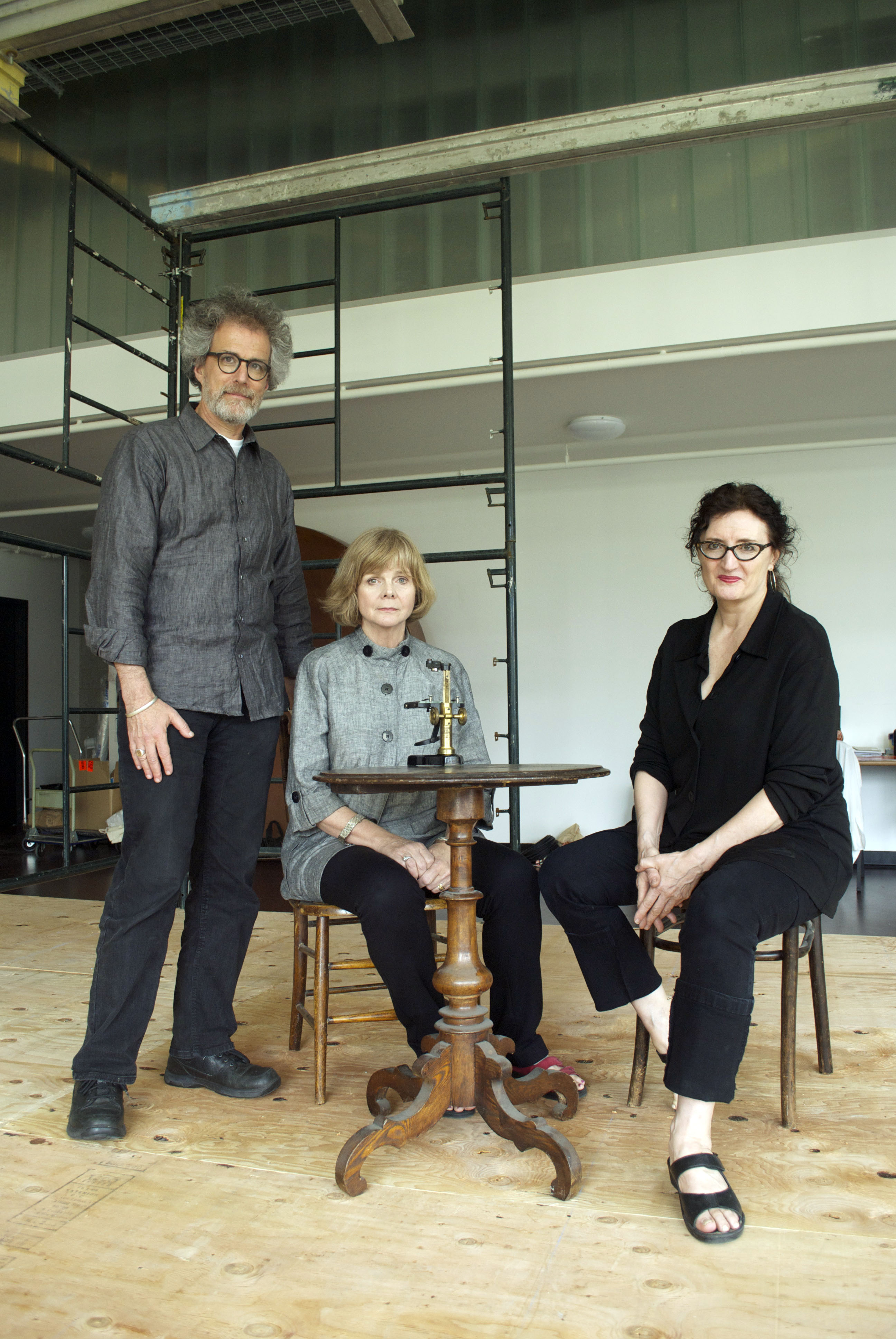 Patricia Gruben in 2013